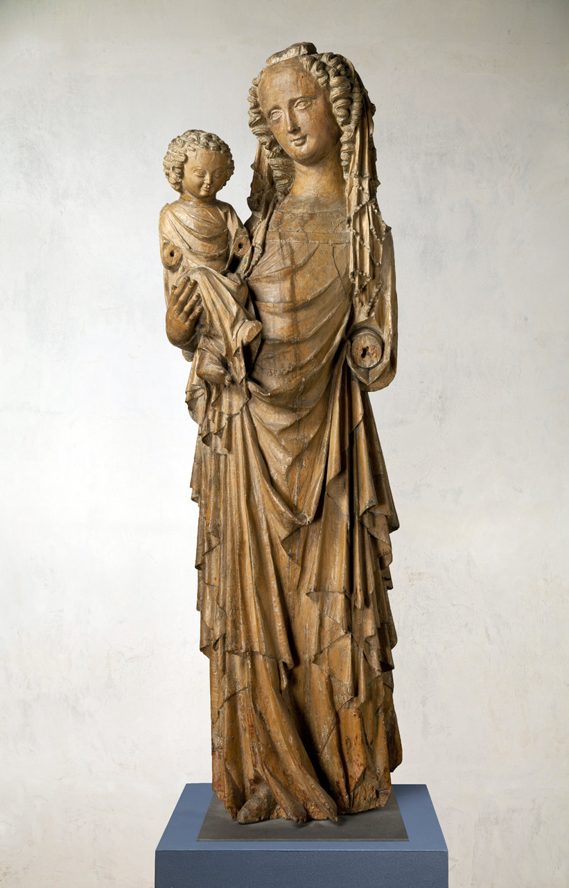 Madonna from Michle, anonymous gothic master (around 1340), National Gallery in Prague